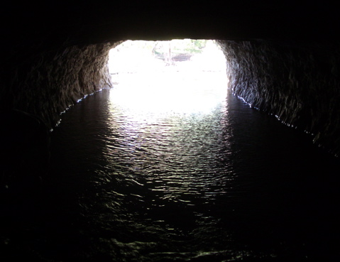 Interior of the Montgomery Bell Tunnel, located near White Bluff in Cheatham County, Tennessee, United States. Built by slave labor as a water diversion tunnel in 1819, it was the first significant tunnel in the United States. Now a part of Harpeth River State Park, it has been designated a National Historic Landmark.